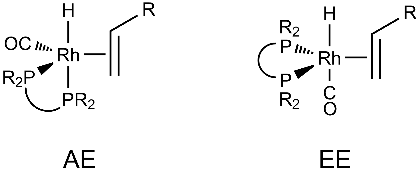 Chemical structure of a rhodium complex showing different isomeric forms